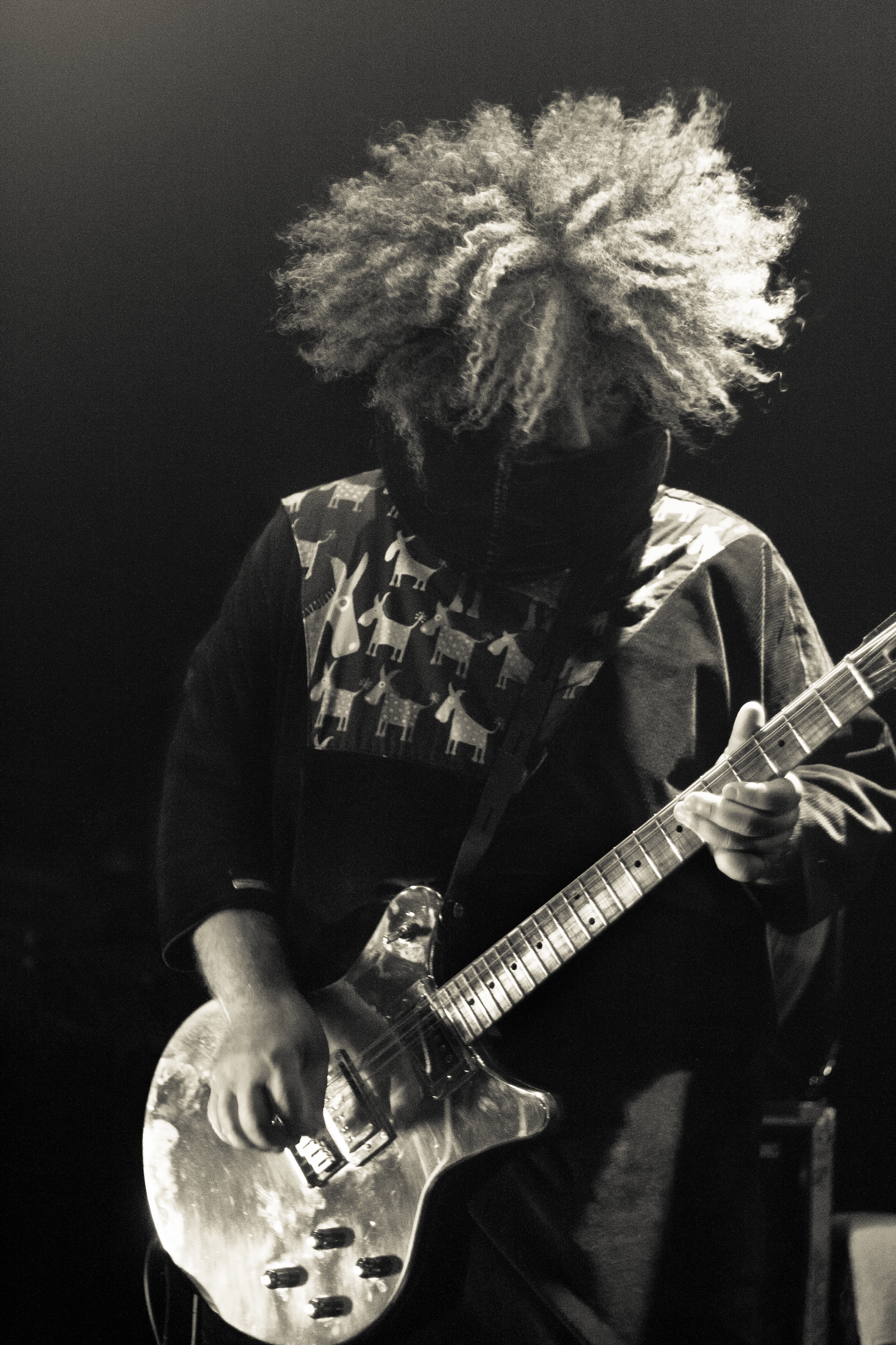 On September 19th, 2010 at Slim's, San Francisco, California.